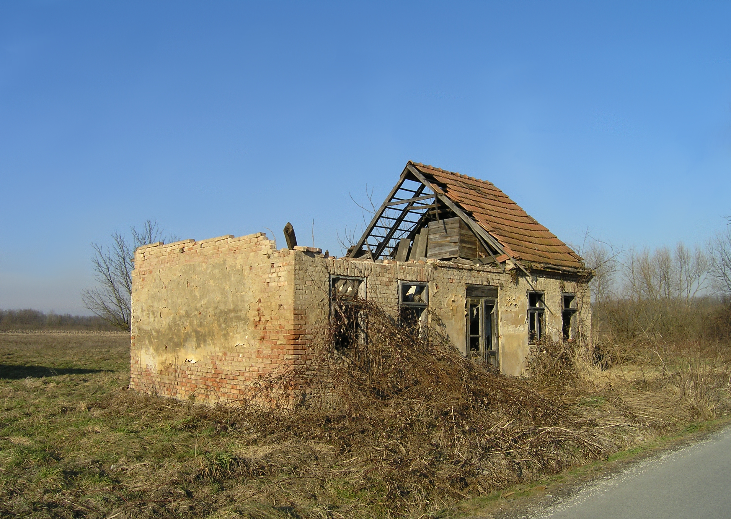 Destroyed Serbian house in Sunja, Croatia. From 1991-1995 Sunja was part of Republic of Serbian Krajina. Relict of war 1991-1995 in Yugoslavia.